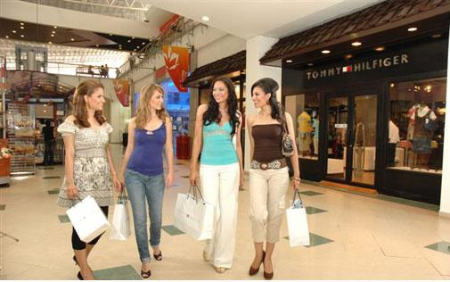 Tommy Hilfiger At Galerias Santo Domingo in Managua